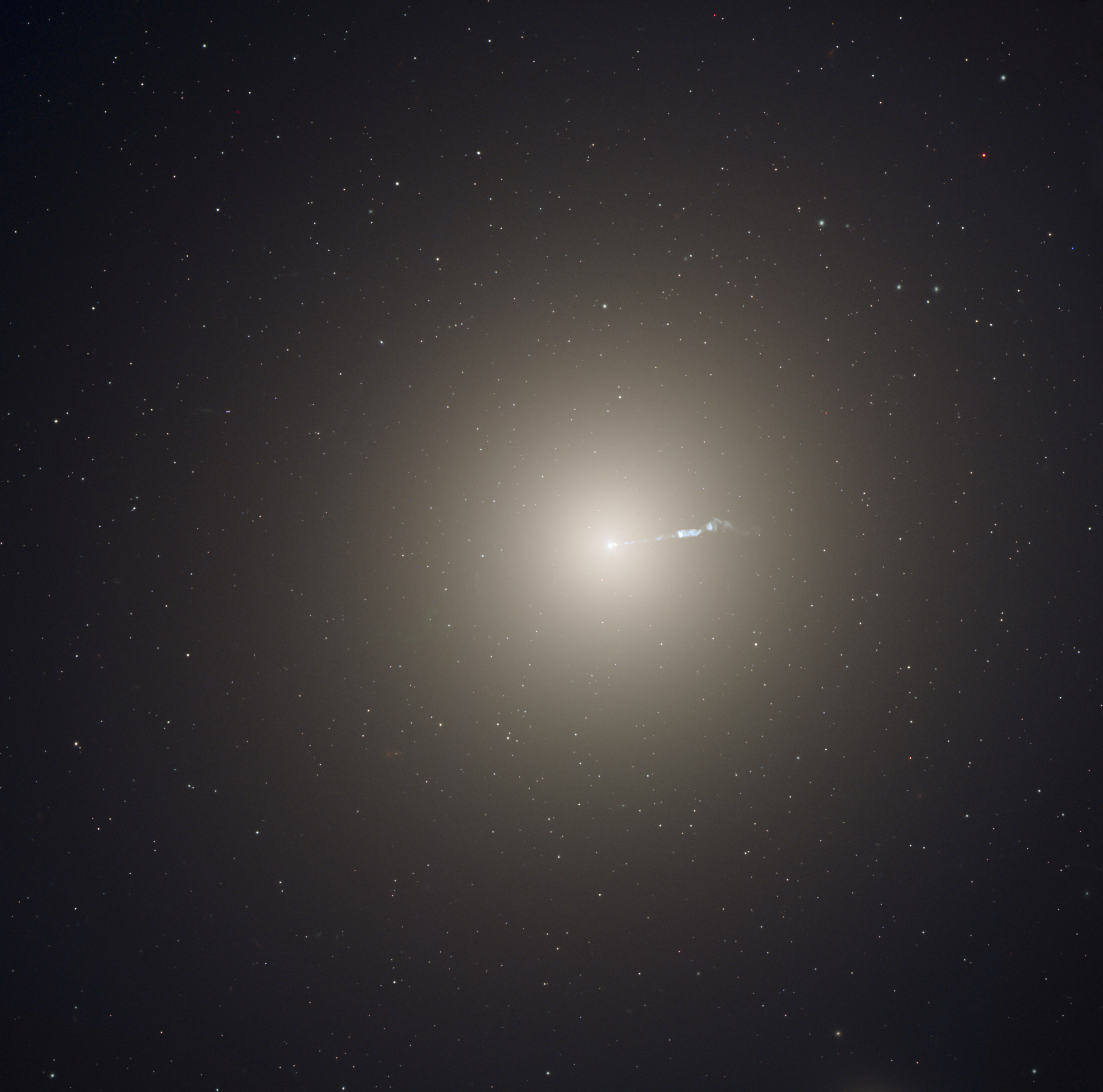 Messier 87 Streaming out from the center of M87 like a cosmic searchlight is one of nature’s most amazing phenomena: a black-hole-powered jet of subatomic particles traveling at nearly the speed of light. In this Hubble image, the blue jet contrasts with the yellow glow from the combined light of billions of unresolved stars and the point-like clusters of stars that make up this galaxy. Credits: NASA and the Hubble Heritage Team (STScI/AURA) The elliptical galaxy M87 is the home of several trillion stars, a supermassive black hole and a family of roughly 15,000 globular star clusters. For comparison, our Milky Way galaxy contains only a few hundred billion stars and about 150 globular clusters. The monstrous M87 is the dominant member of the neighboring Virgo cluster of galaxies, which contains some 2,000 galaxies. Discovered in 1781 by Charles Messier, this galaxy is located 54 million light-years away from Earth in the constellation Virgo. It has an apparent magnitude of 9.6 and can be observed using a small telescope most easily in May. This Hubble image of M87 is a composite of individual observations in visible and infrared light. Its most striking features are the blue jet near the center and the myriad of star-like globular clusters scattered throughout the image. The jet is a black-hole-powered stream of material that is being ejected from M87’s core. As gaseous material from the center of the galaxy accretes onto the black hole, the energy released produces a stream of subatomic particles that are accelerated to velocities near the speed of light. At the center of the Virgo cluster, M87 may have accumulated some of its many globular clusters by gravitationally pulling them from nearby dwarf galaxies that seem to be devoid of such clusters today. For more information about Hubble’s observations of M87